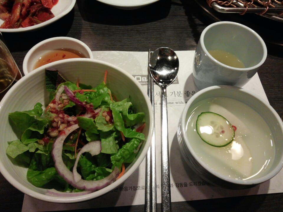 A Korean style salad of geotjeol-i(겉절이, left) and dongchimi kimchi (right)